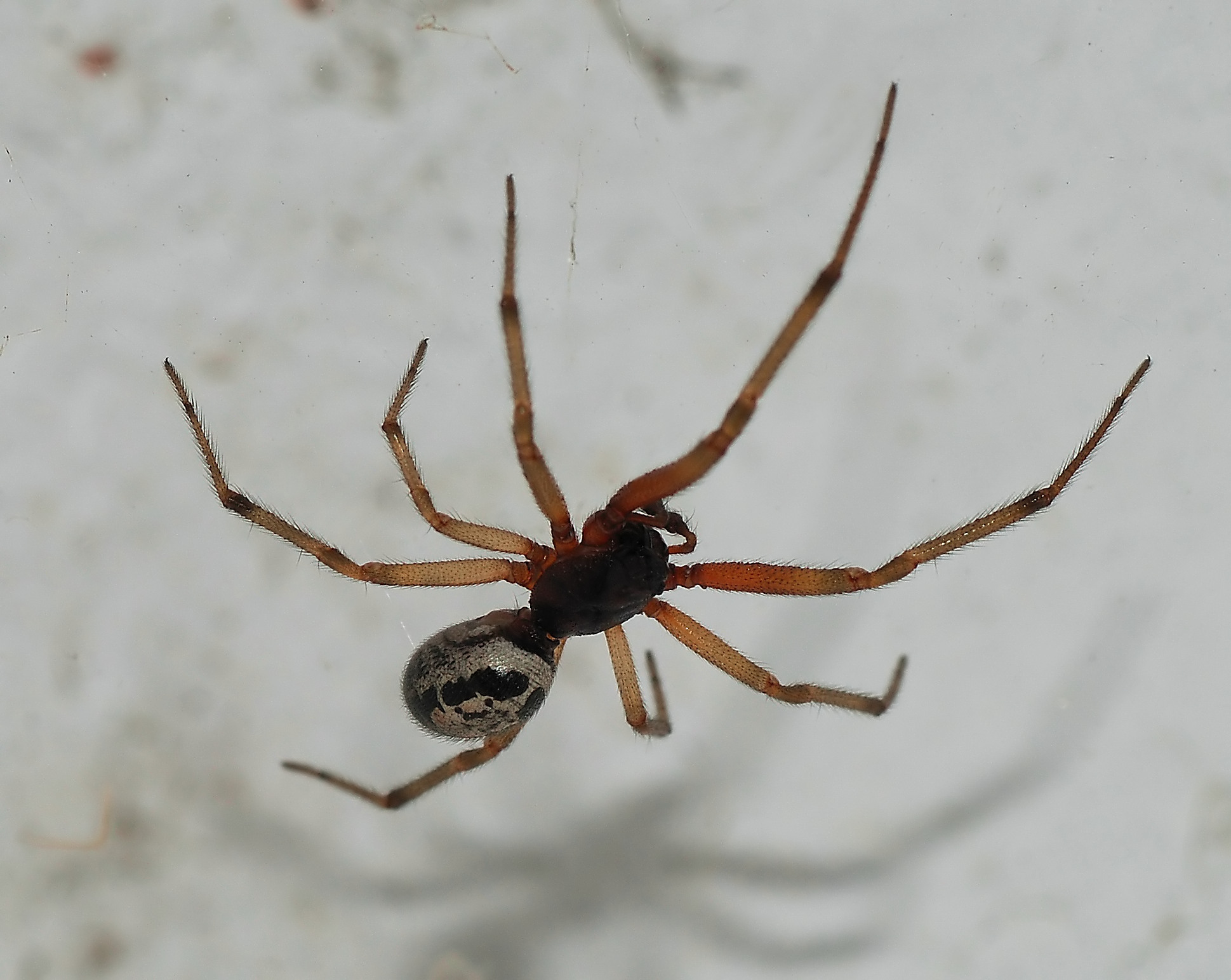 A spider of the Theridiidae family (Steatoda nobilis)